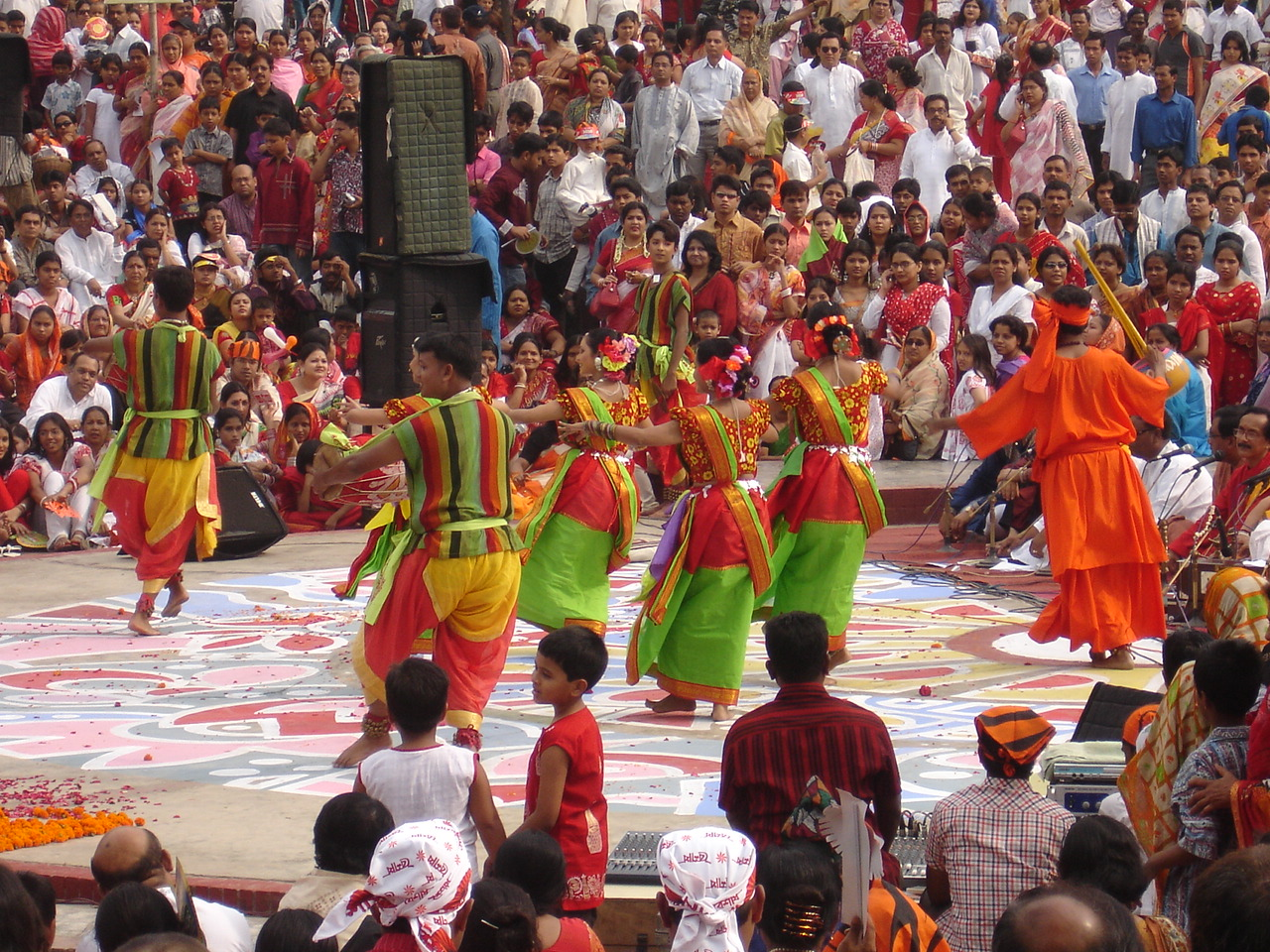 Celebrating Pohela Boishak.